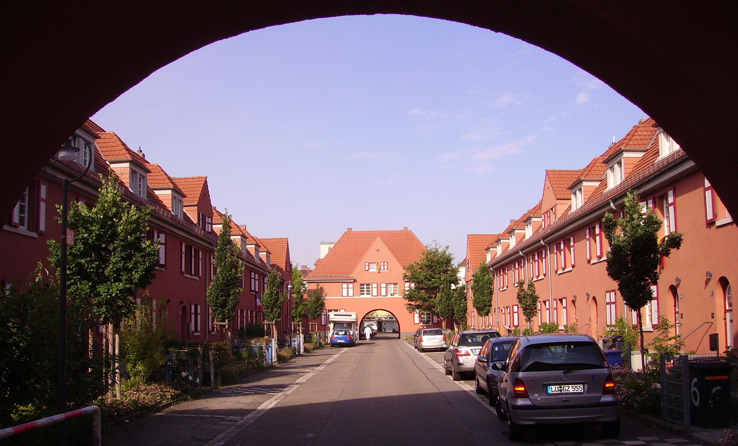 Ludwigshafen-Gartenstadt